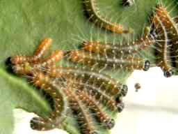 Caterpillars of Common Jezebel (Delias eucharis) feeding together